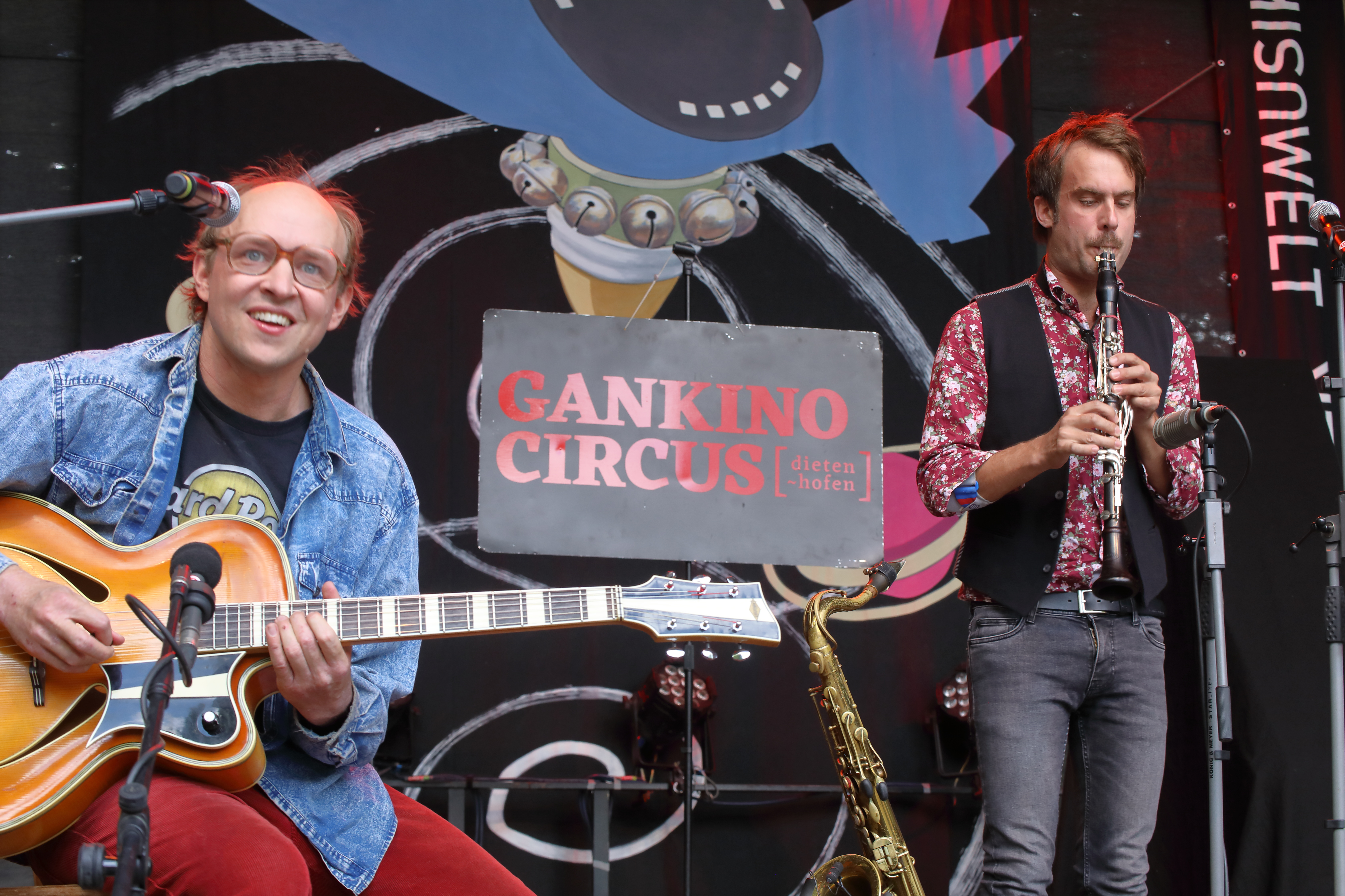 Gankino Circus from Dietenhofen in Franconia at Rudolstadt-Festival 2019.